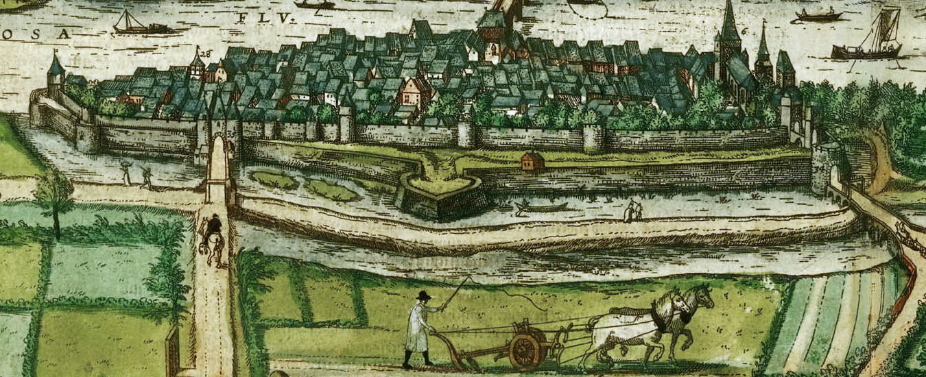 View of Wyck, part of the city of Maastricht, Netherlands, around 1570. Detail of a city panorama by Simon de Bellomonte, ca. 1570, published in 1575 in Part 2 of Braun & Hogenberg's atlas of world cities Civitates orbis terrarum.